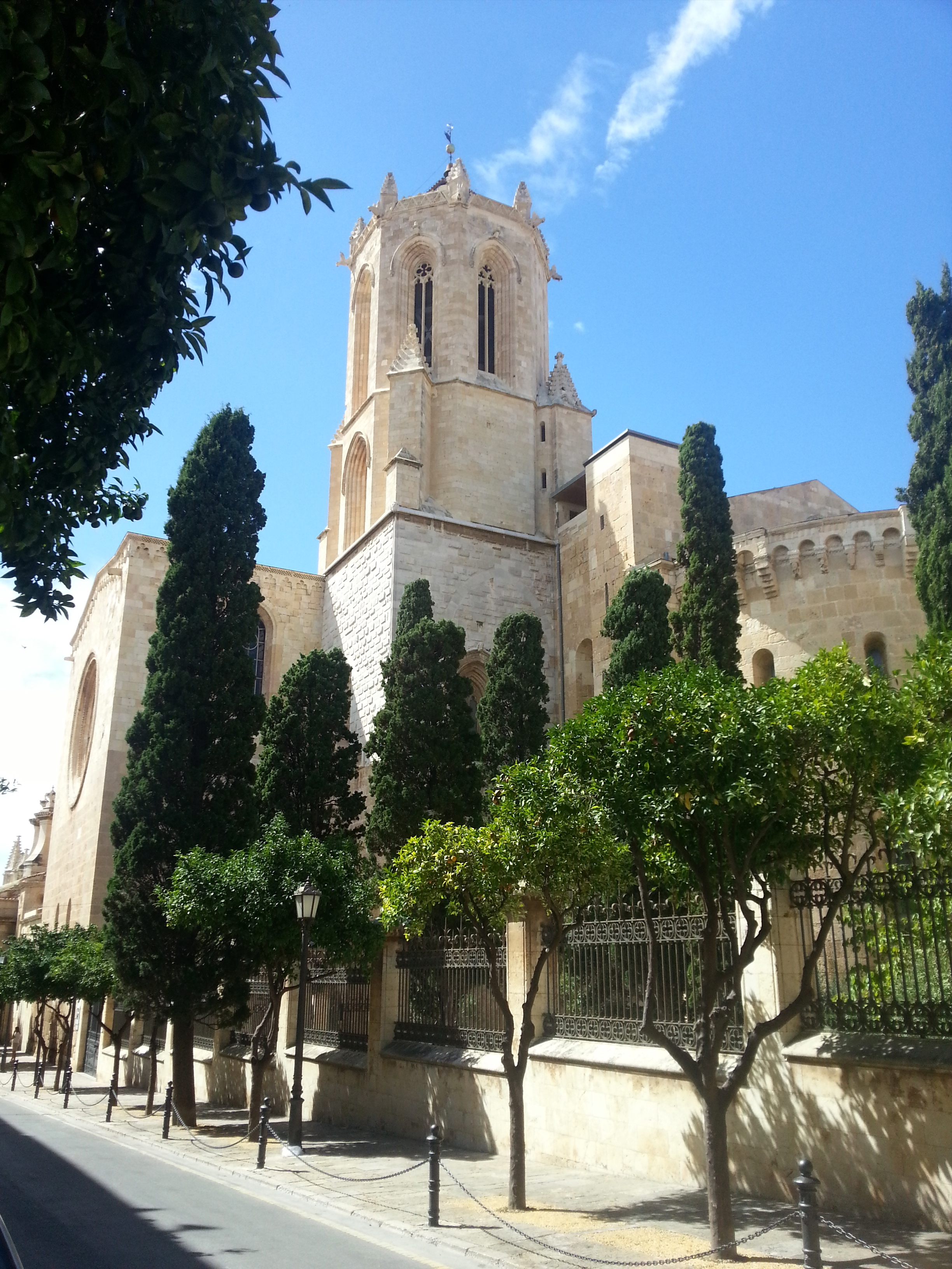 Taragona cathedral